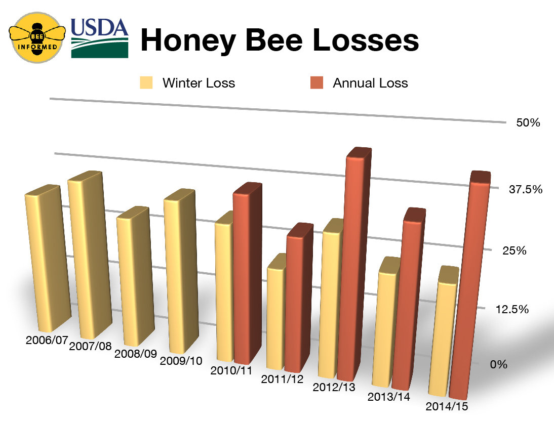 USDA-produced chart of honey bee losses by year